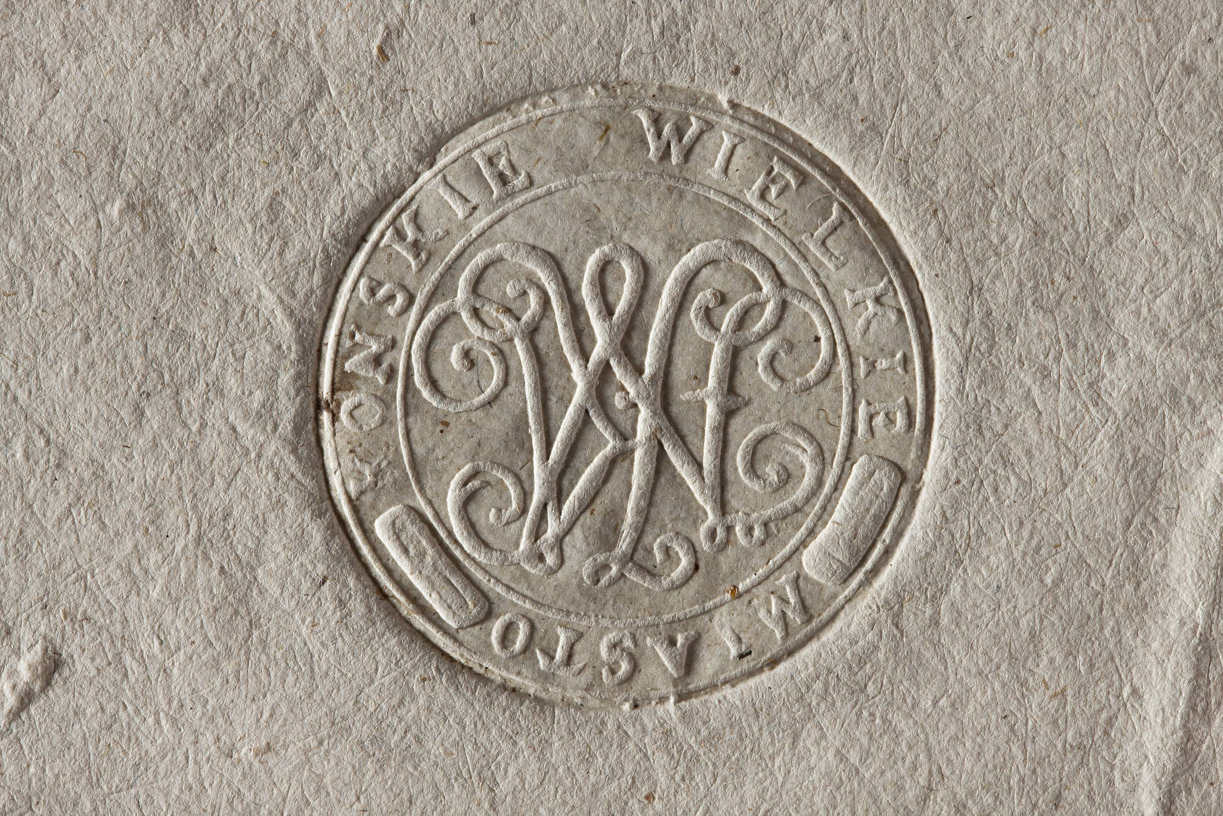 Seal of Konskie Wielkie (1797)